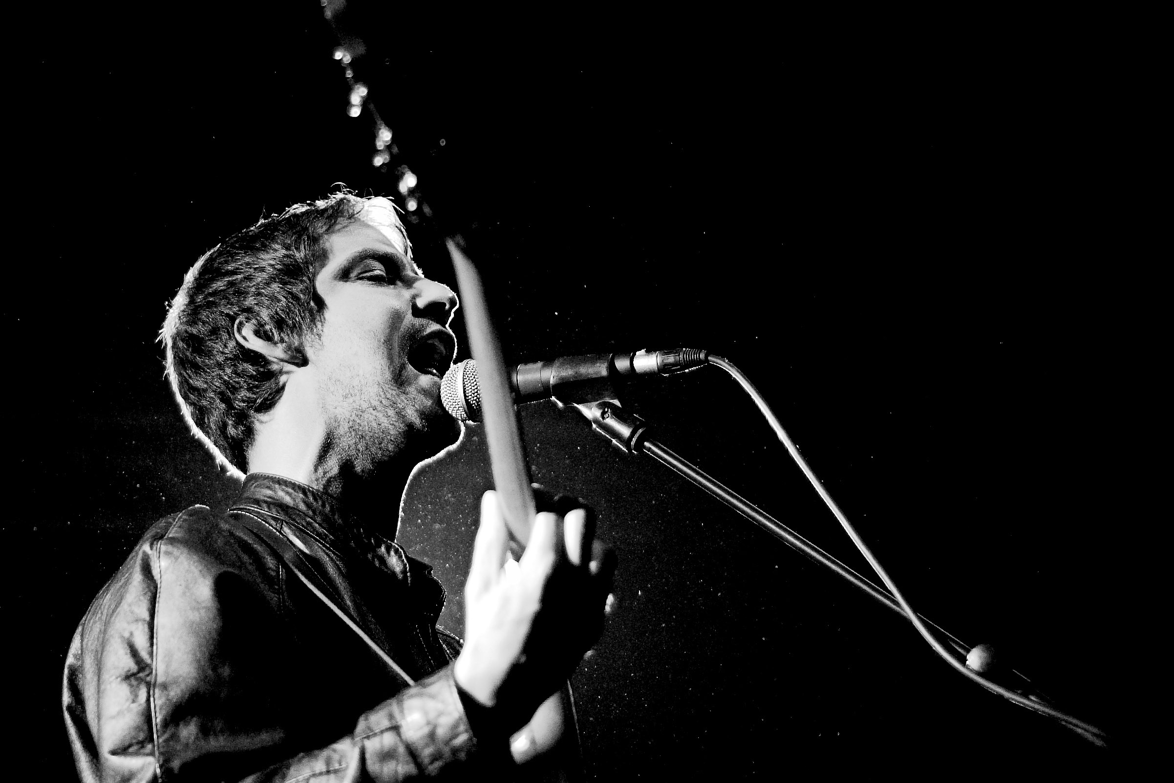 Joel Stoker of the Rifles performing at the University of Warwick Student's Union on the 8th of March 2007.